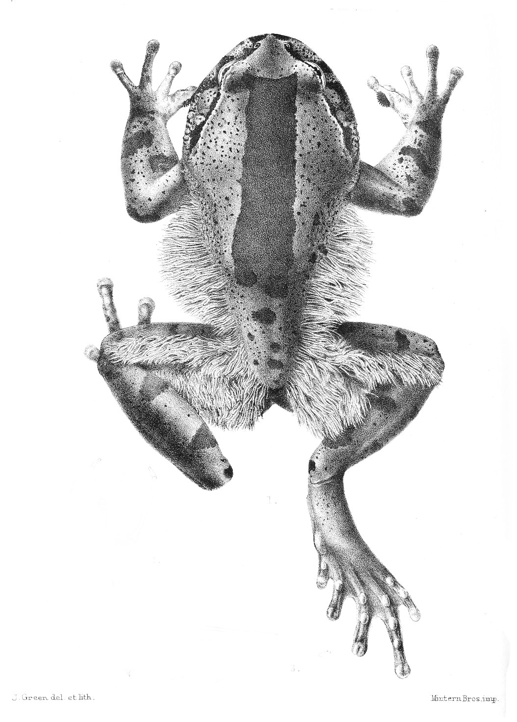 Trichobatrachus robusts